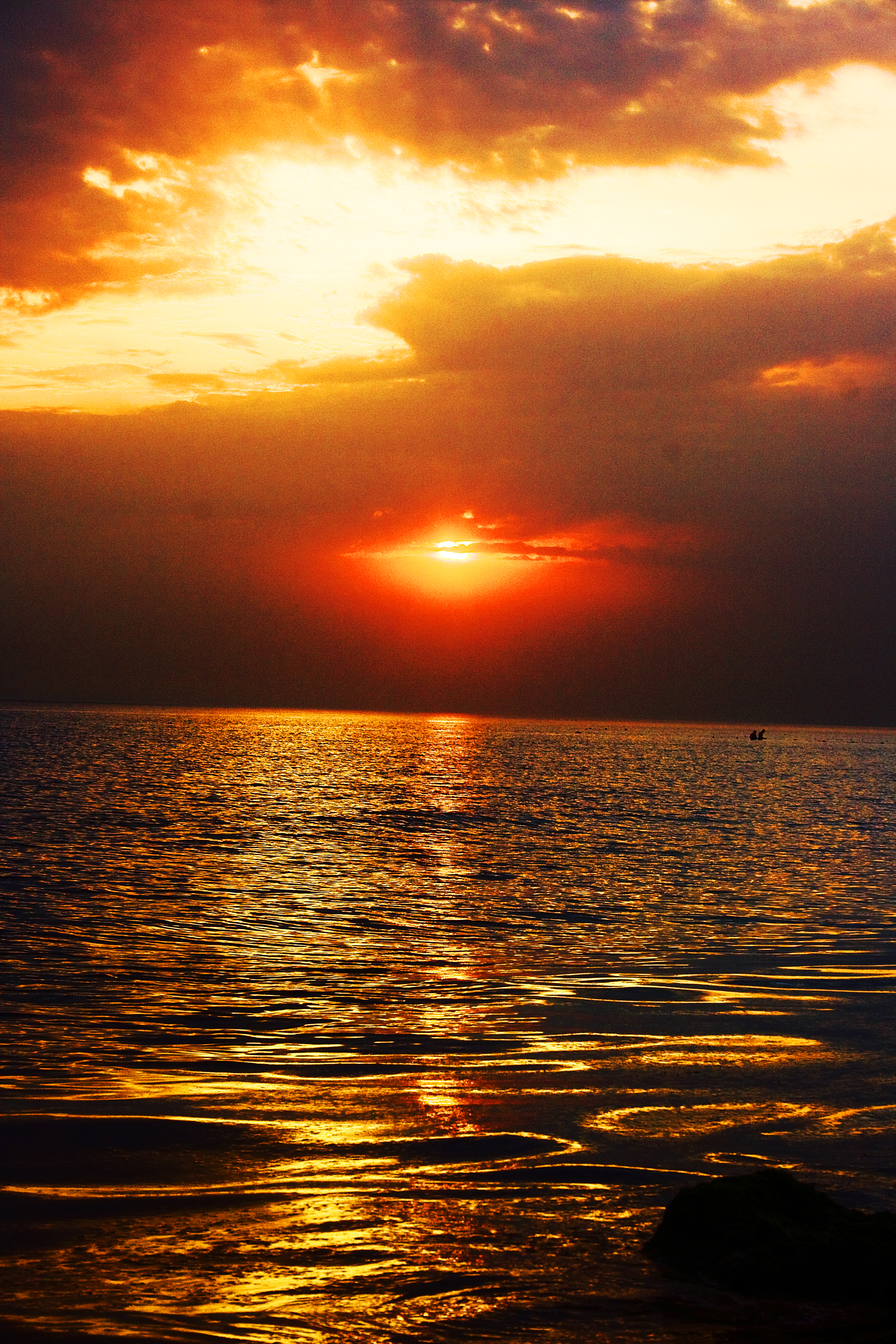 Анапа 2011 (0001)